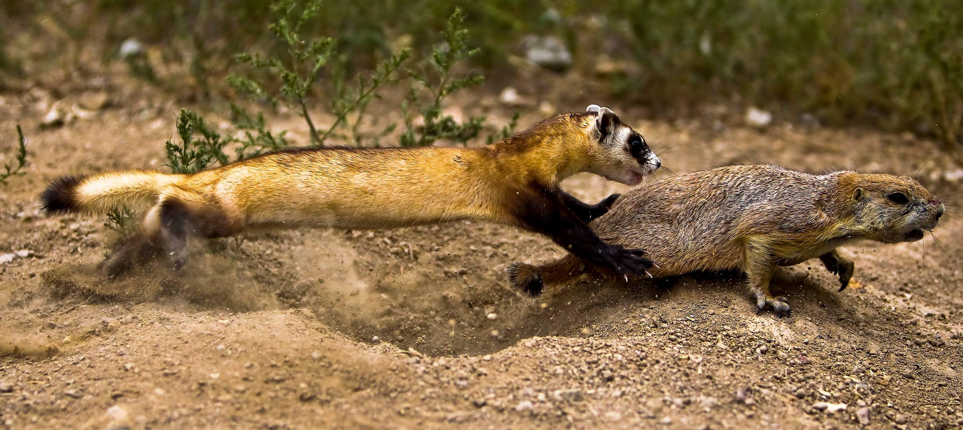 This is yet another amazing capture from our National Black-footed Ferret Conservation Center. The center breeds endangered black-footed ferrets and then prepares them for release into the wild. Here, a BFF is seen learning to catch live prey! Over 90% of a black-footed ferret's diet in the wild is prairie dog. Credit: USFWS